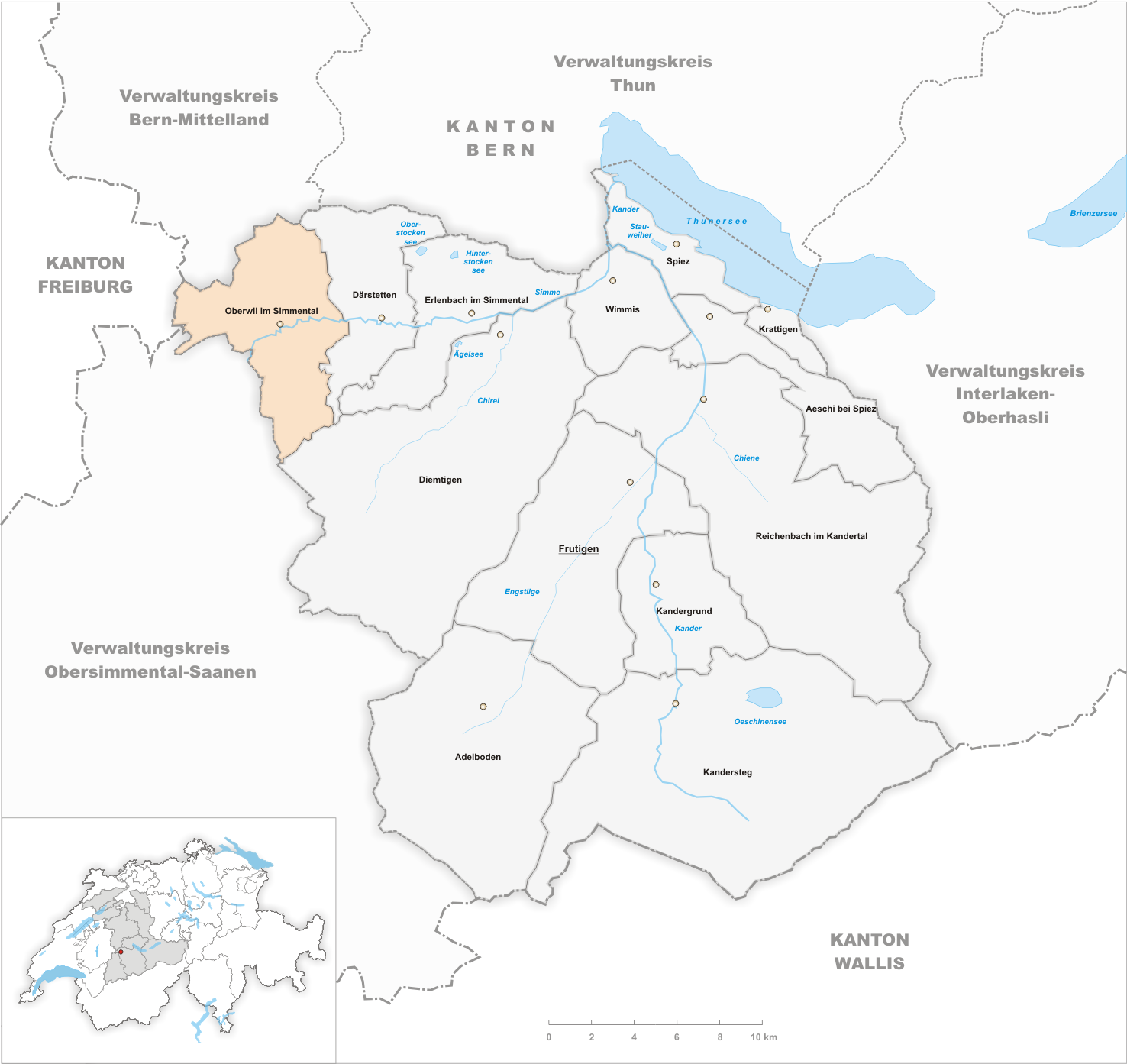 Municipality Oberwil im Simmental